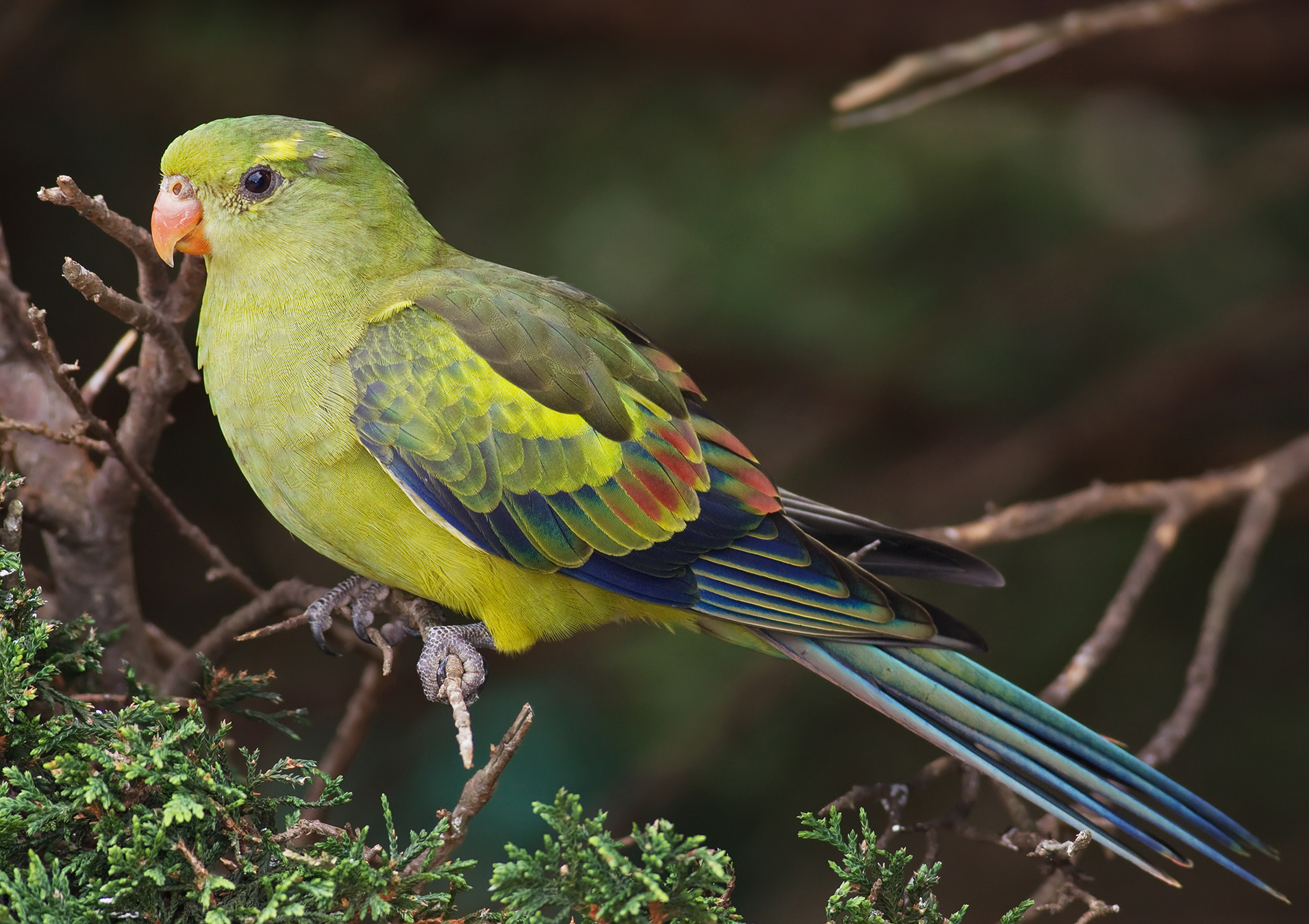 A juvenile Regent Parrot (Polytelis anthopeplus) at the Bird Walk (Walk-in Aviary), Canberra, Australian National Territory, Australia.